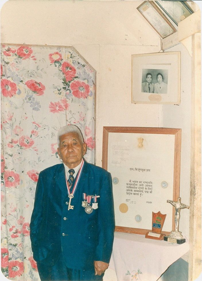 Picture of my grand father.